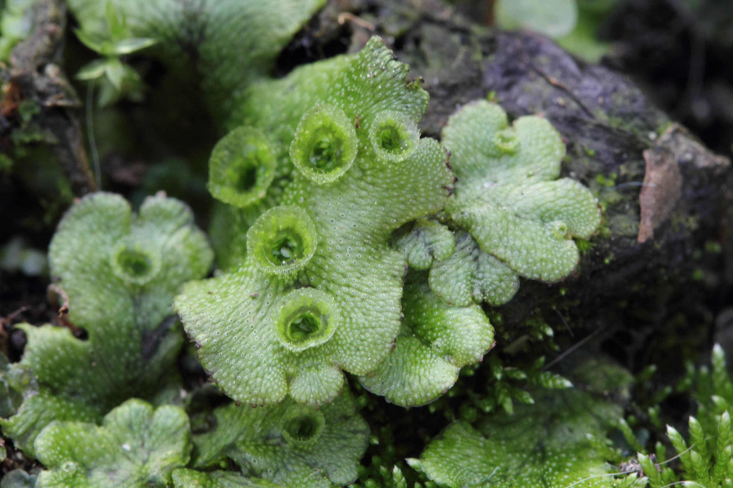 Thallus of liverworts